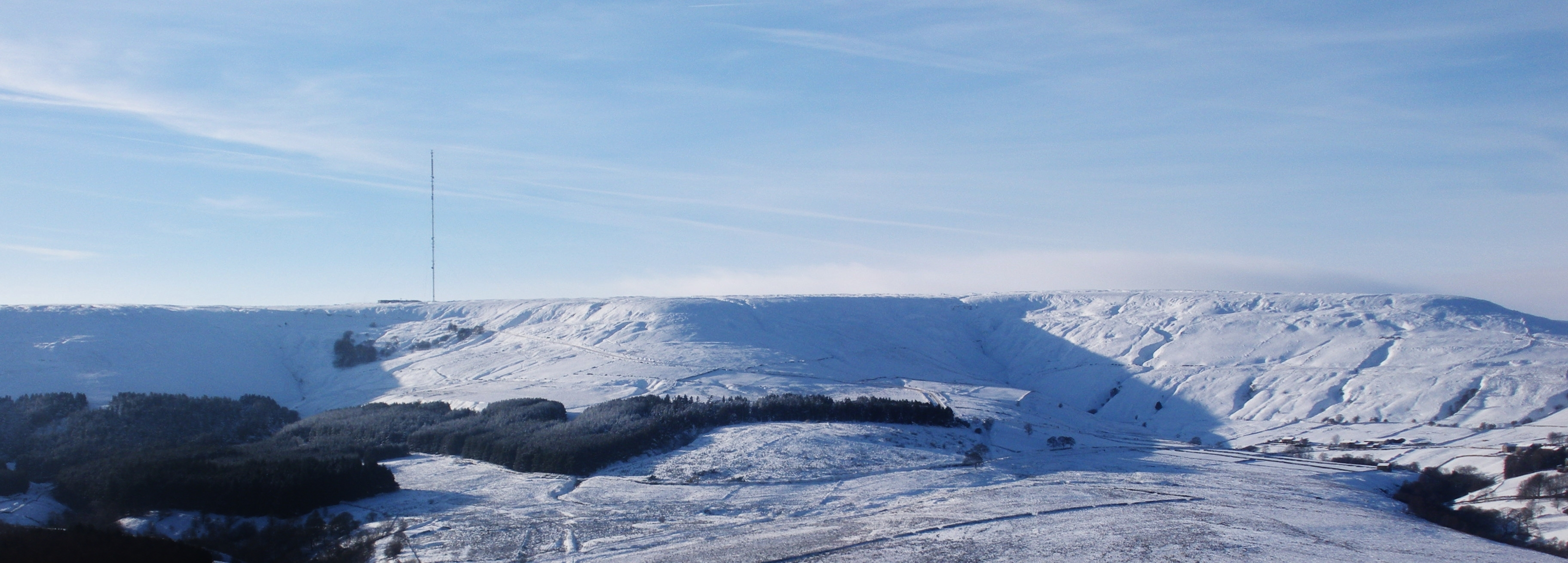 View of Holme Moss above the Holme Valley above Holme Village, near Holmfirth in West Yorkshire, England. On the horizon is the Holme Moss transmitting station.